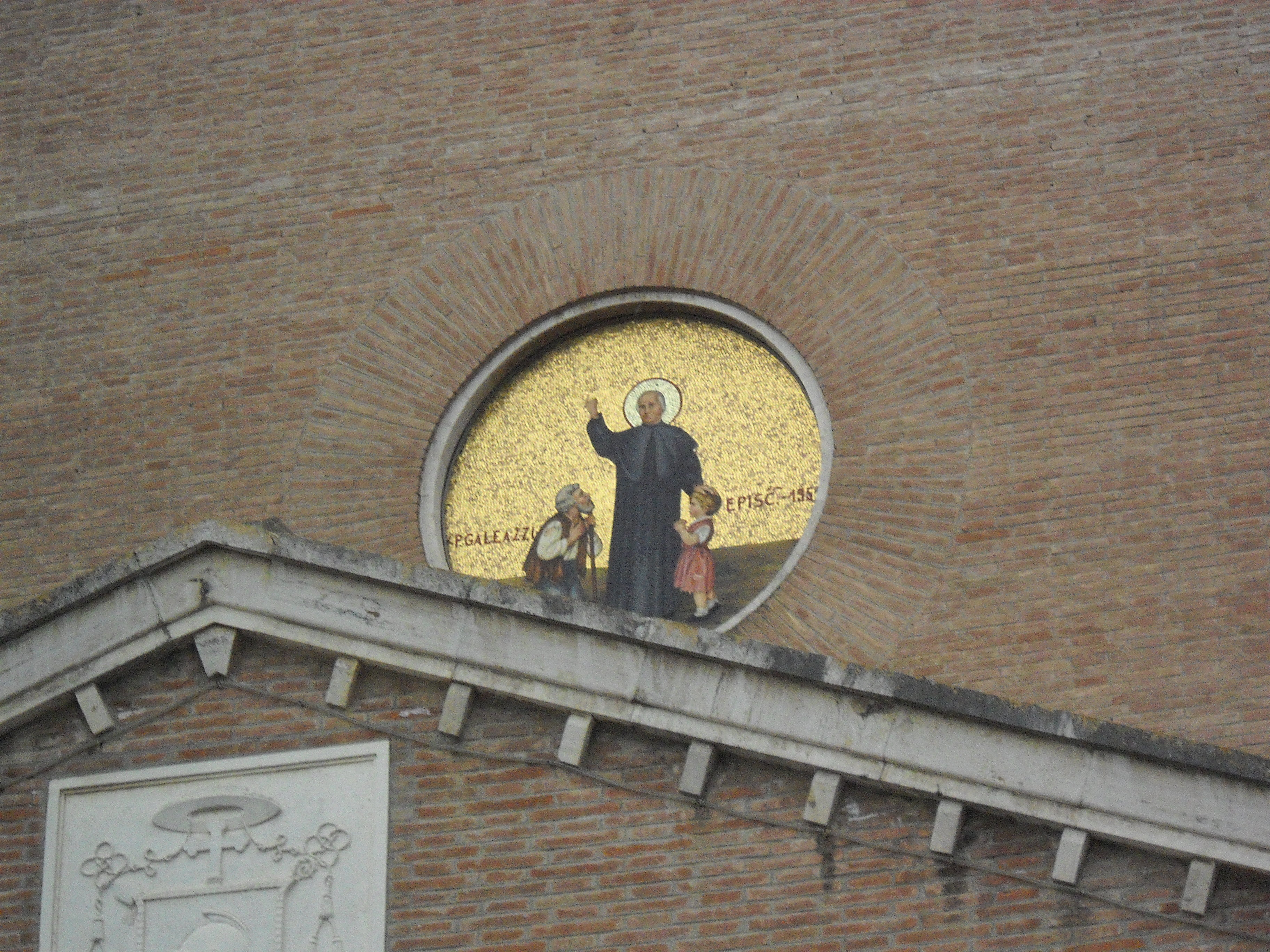 Rose Window of San Giuseppe Benedetto Cottolengo in Grosseto, Tuscany